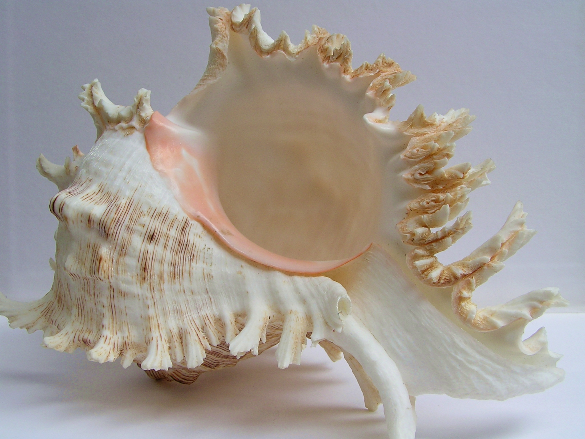 Chicoreus ramosus (Linnaeus, 1758)